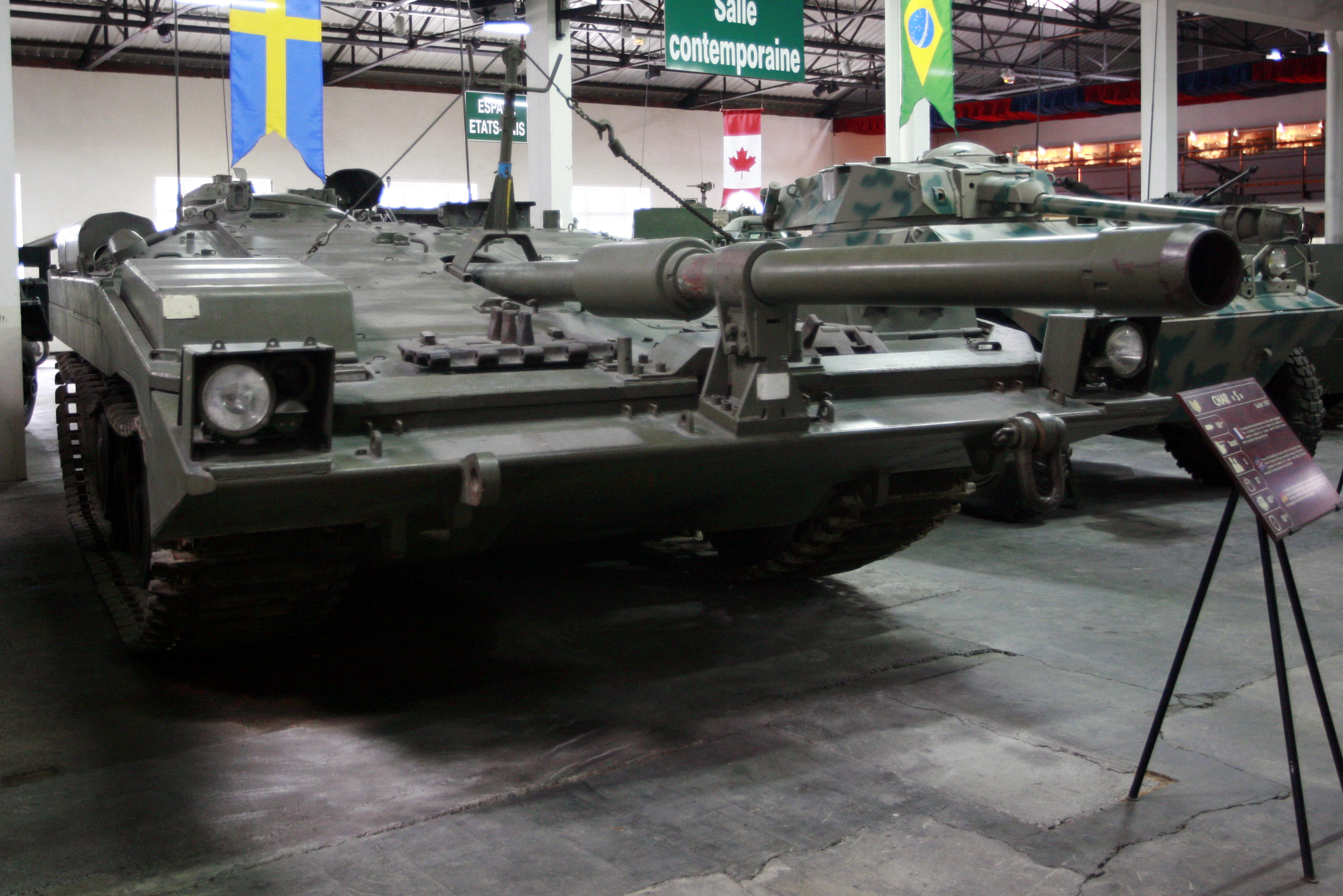 Stridsvagn 103. On display at Saumur Général Estienne museum.